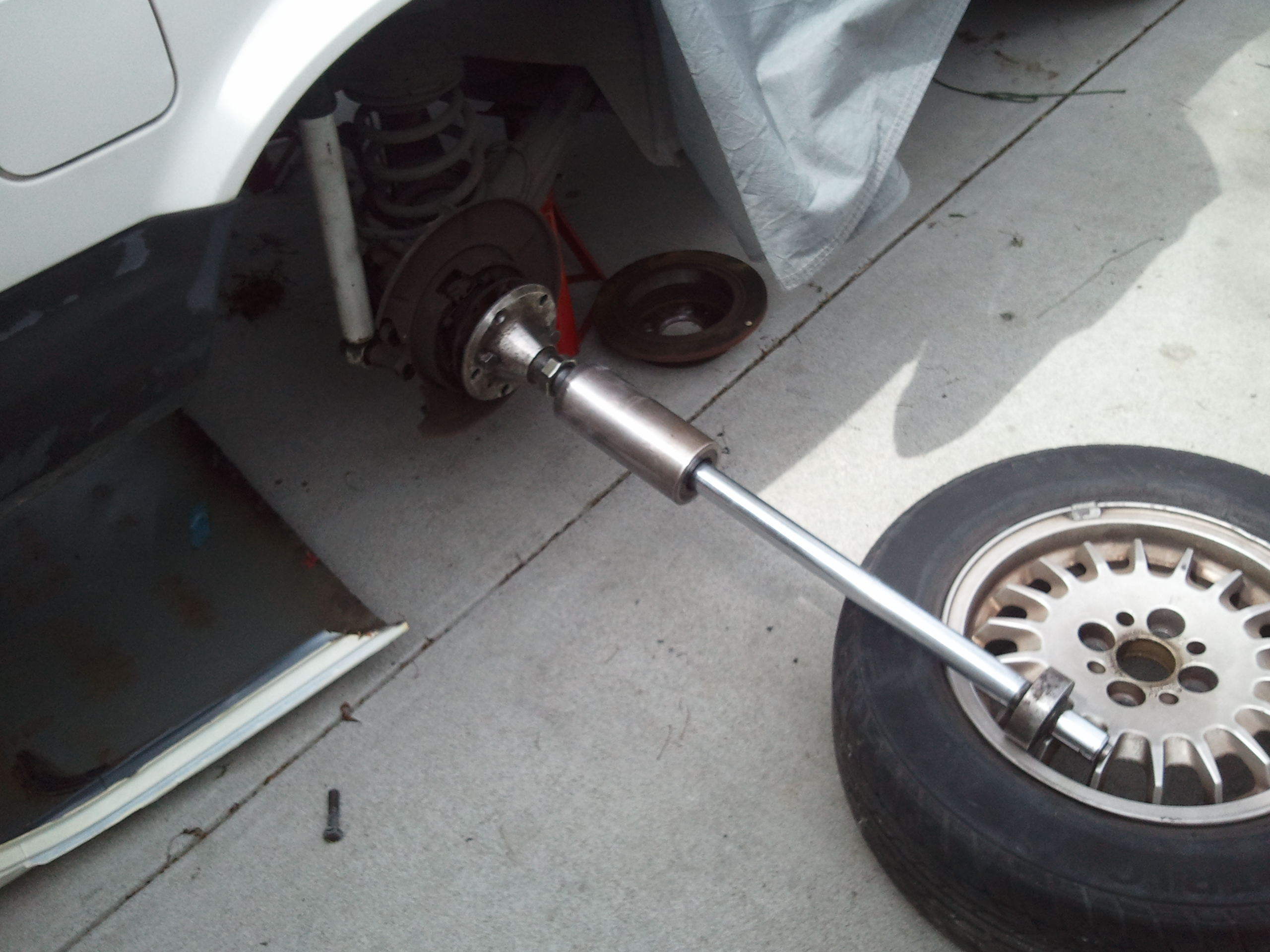 Giant slide hammer borrowed from Palo Alto Bimmer. Strong enough for a man, but made to remove the hub from the inside of the rear bearing.